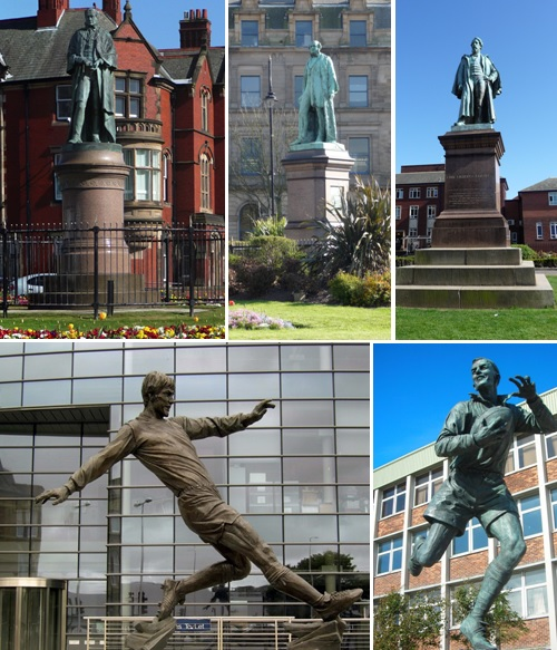 Collage of statues in Barrow-in-Furness, UK